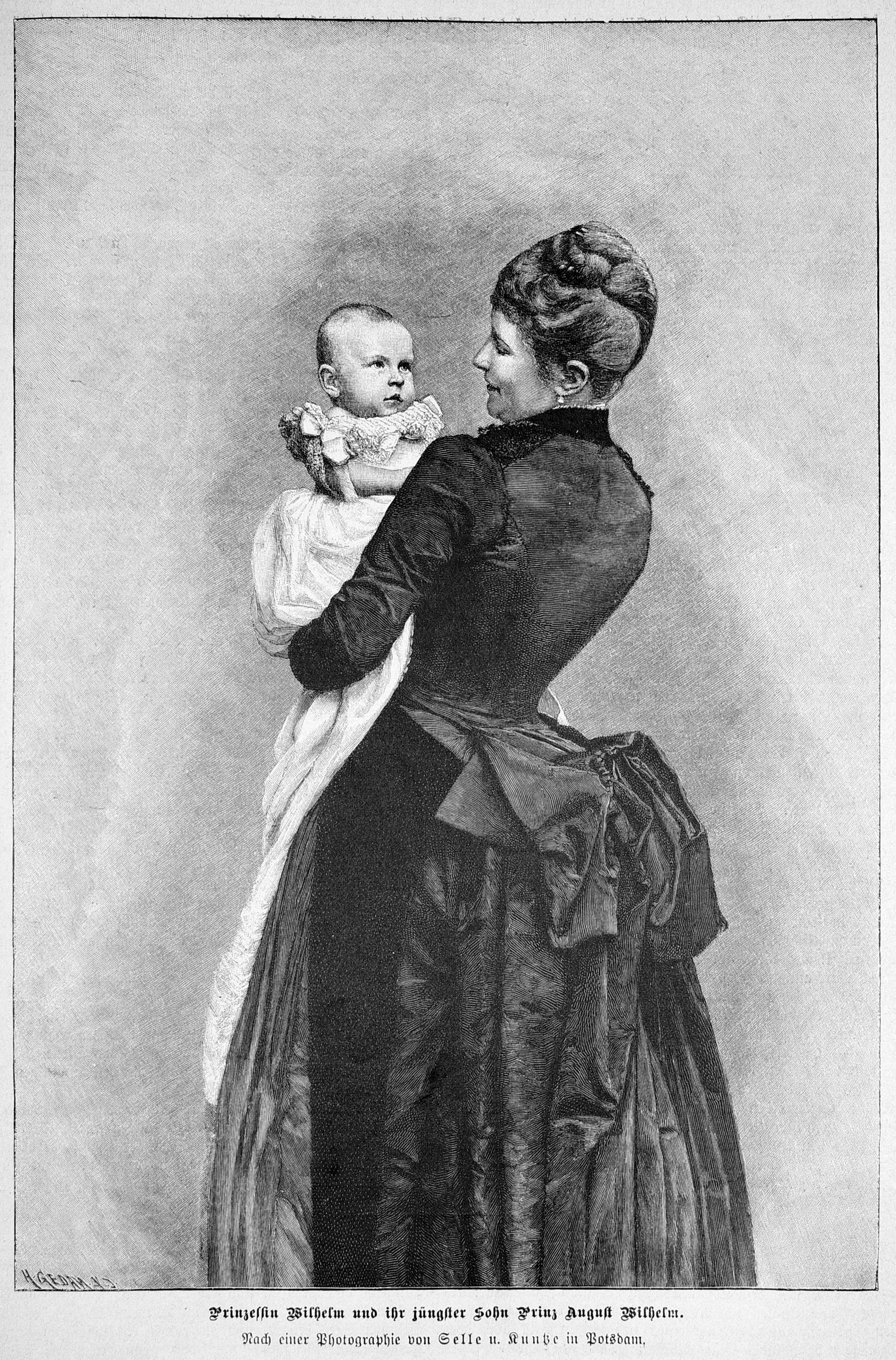 caption: "Prinzessin Wilhelm und ihr jüngster Sohn Prinz August Wilhelm.Nach einer Photographie von Selle u. Kuntze in Potsdam."